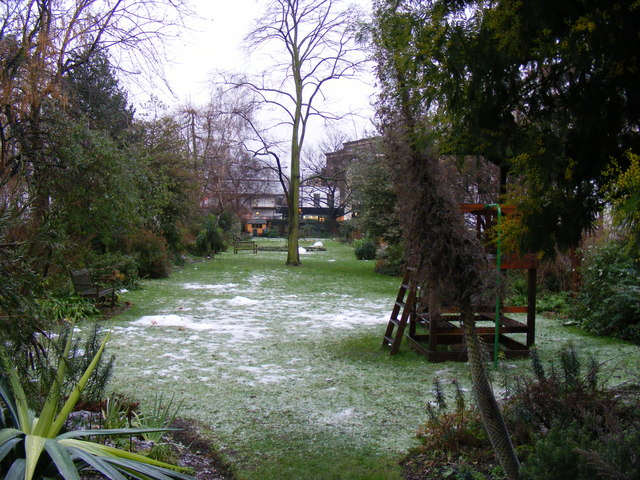 Gardens in Markham Square Pictured facing Kings Road